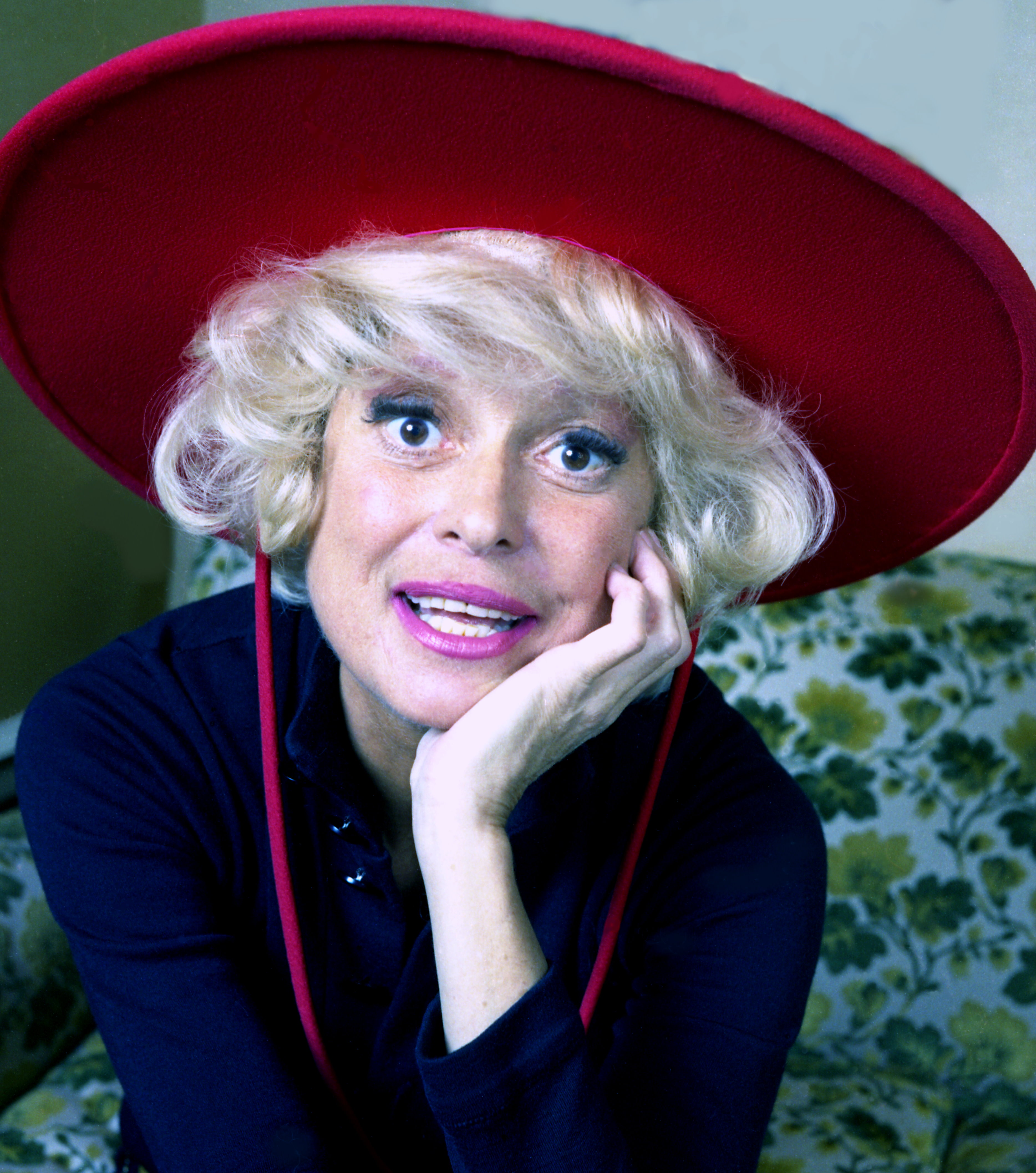 colour portrait Carol Channing